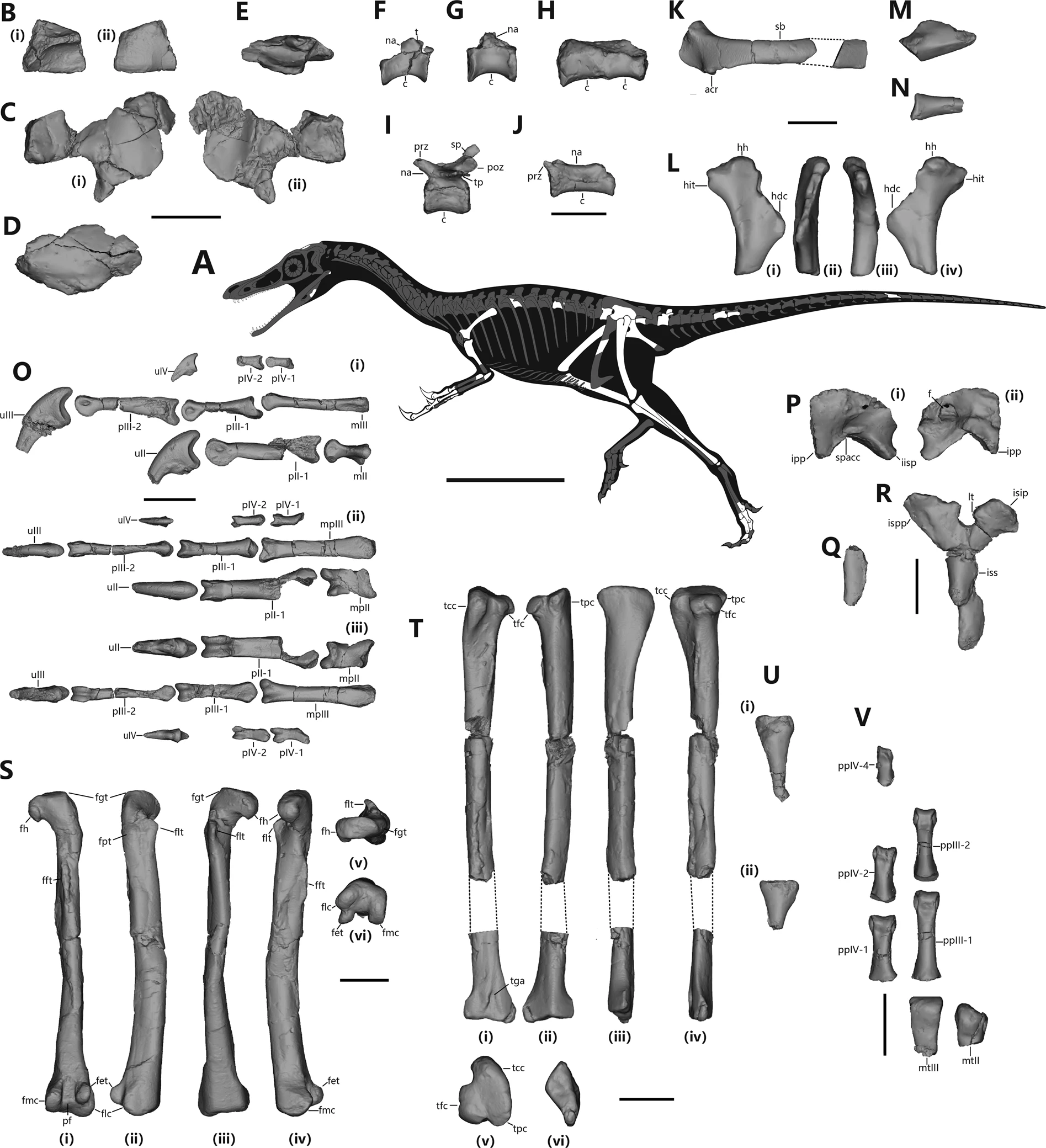 Skeletal anatomy of Shishugounykus inexpectus (IVPP V23567). Skeletal reconstruction showing preserved elements. (A), Skeletal silhouette showing preserved bones (missing portions shown in gray; Scale bar, 200 mm); (B), Partial left frontal in dorsal and ventral view; (C), Partial right frontal and parietal in dorsal and ventral view; (D), Partial right angular in lateral view; (E), Right articular in dorsal view; (F), An anterior dorsal in lateral view; (G), A posterior dorsal in lateral view; (H), Two most anterior sacrals in lateral view; (I), An anterior caudal in lateral view; (J), A posterior caudal in lateral view; (K), Right scapula in lateral view; (L), Partial left humerus in anterior, posterior, lateral and medial view; (M), Proximal end of right ulna; (N), Proximal end of right radius; (O), Right manus in lateral, dorsal and ventral view; (P), Partial left ilium in lateral and medial view; pubis (Q) and ischium (R) in lateral view; (S), Right femur in posterior, lateral, anterior and medial view; (T), Left tibia in anterior, posterior, lateral and medial view; (U), Left and right fibulae in lateral view; (V), Partial left metatarsals II and III, left pedal phalanges III-1 and 2, IV-1, 2, and 4 in dorsal view. (Figure abbreviations see supplementary materials; Scale bar, 20 mm; The skeletal silhouettes are created by Aijuan Shi using Adobe Illustrator